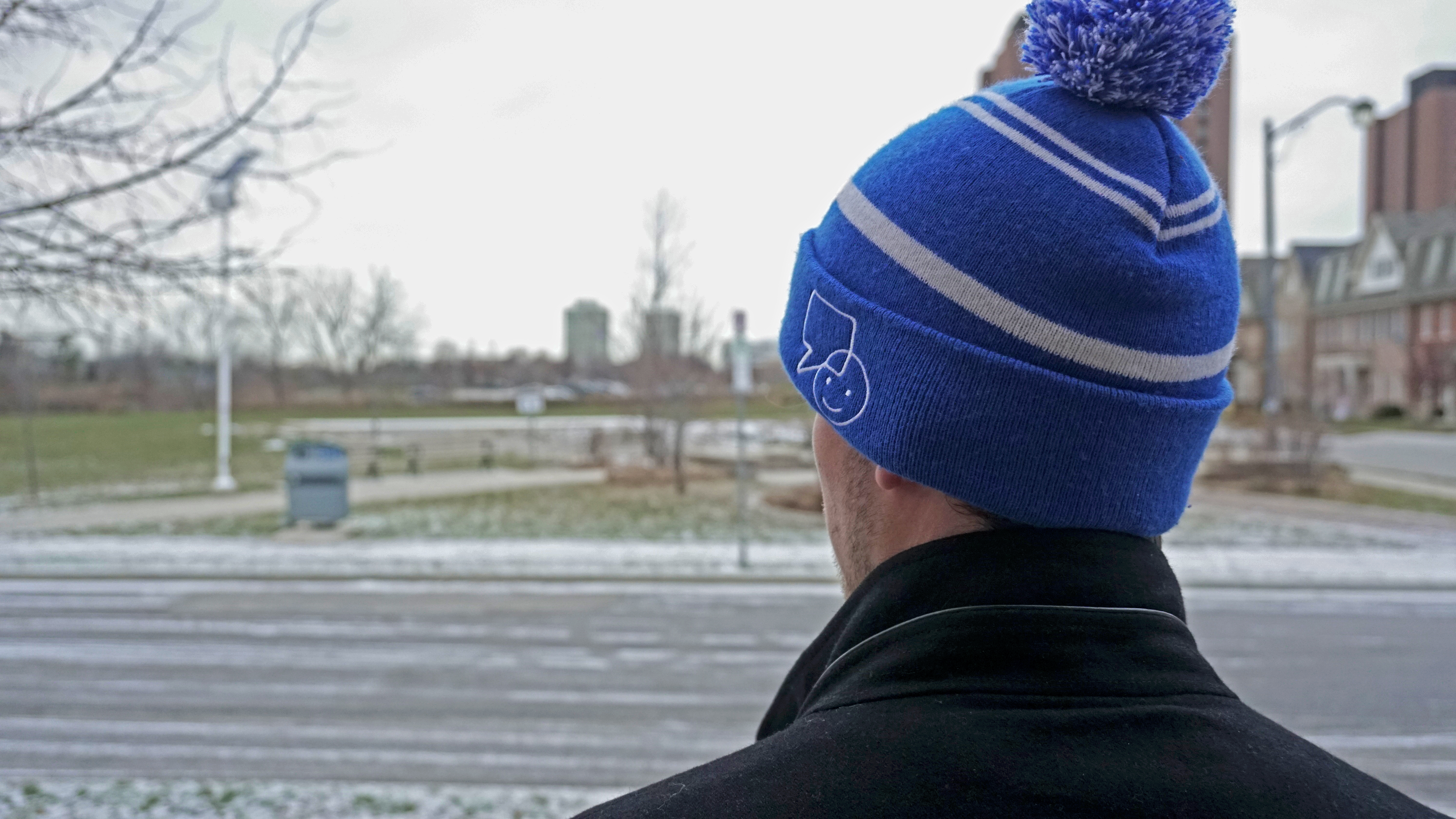 A student wearing a hat advertising the BellLetsTalk Initiative